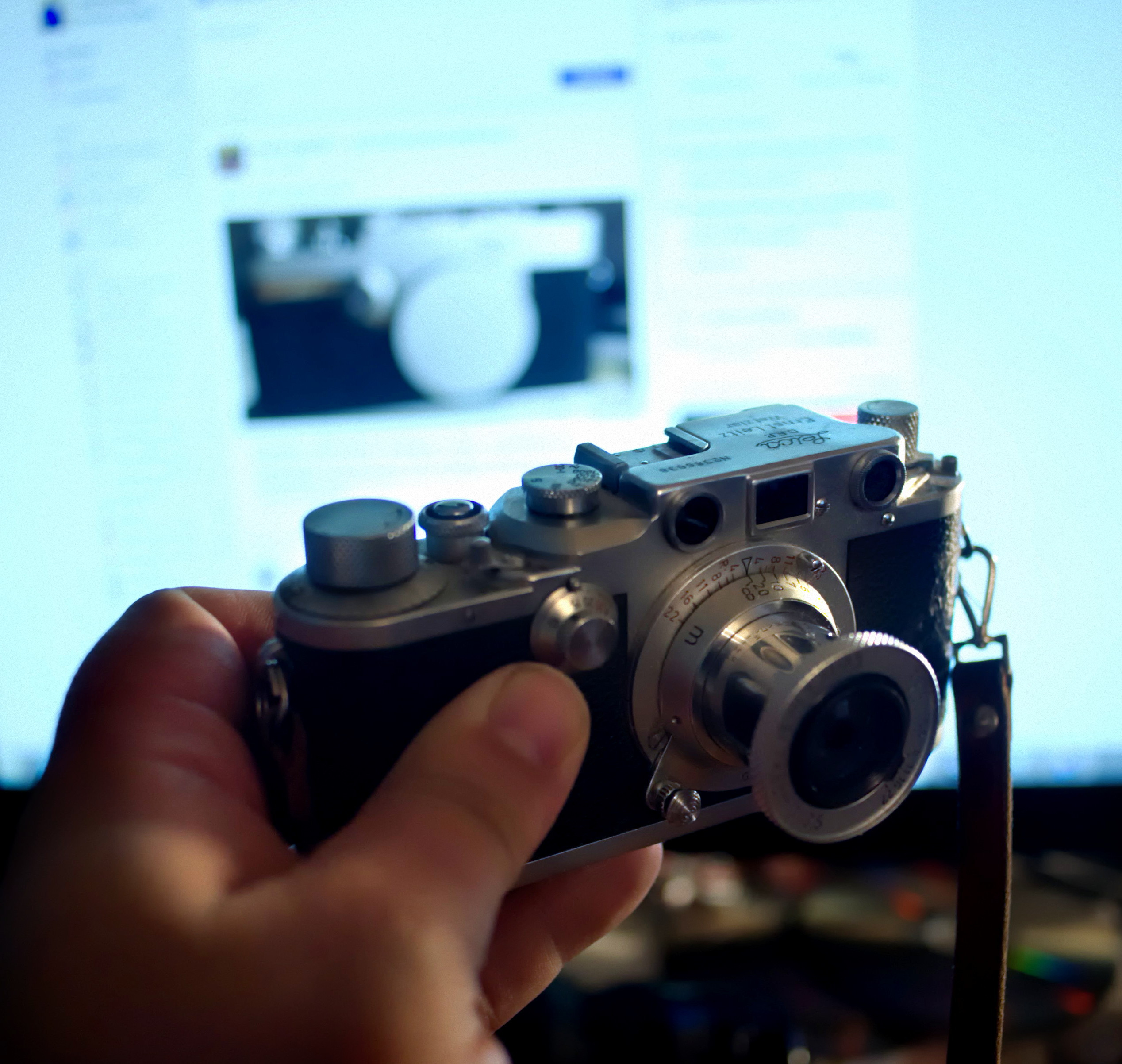 Leica IIIc (1942)